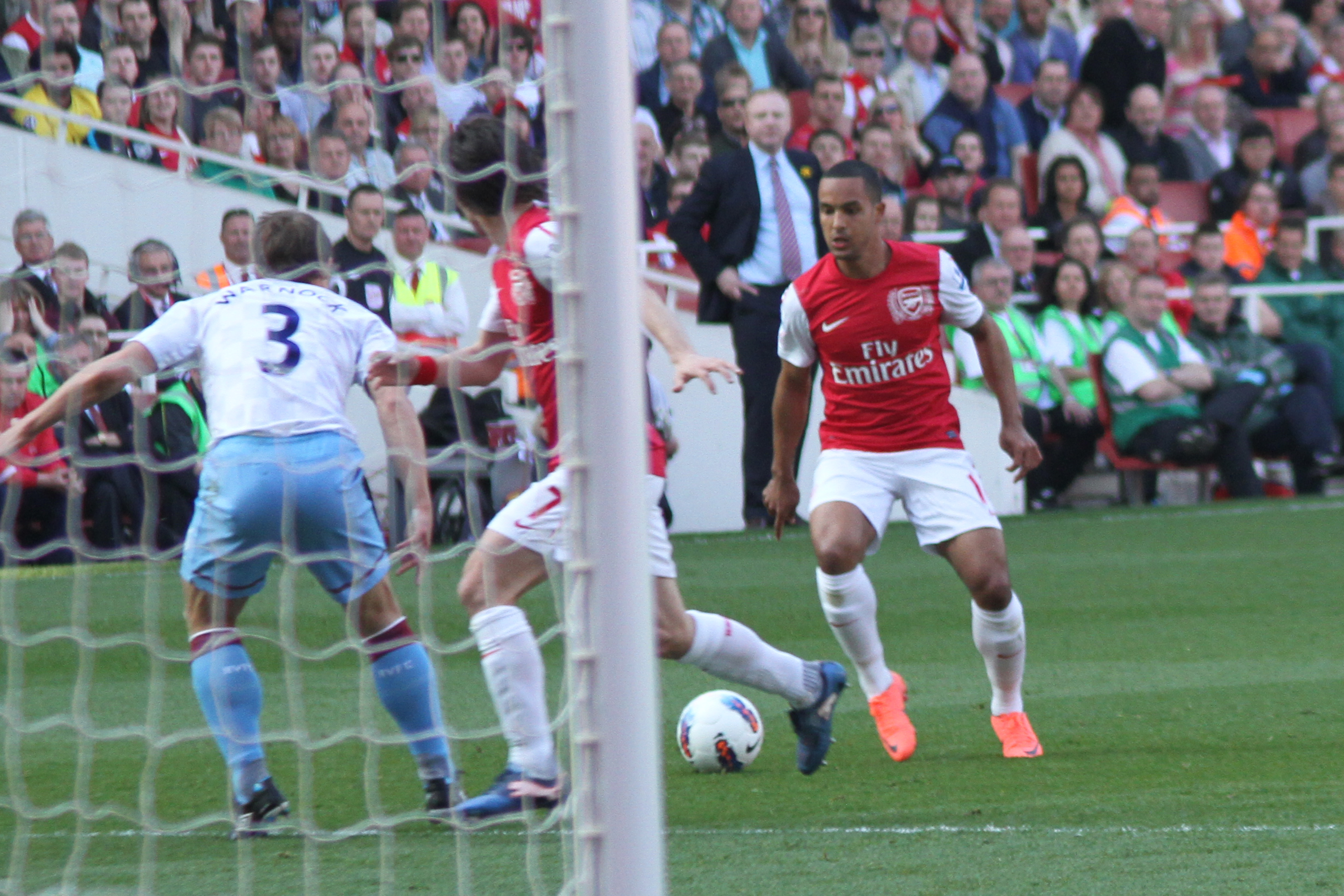 Arsenal vs Aston Villa, March 2012